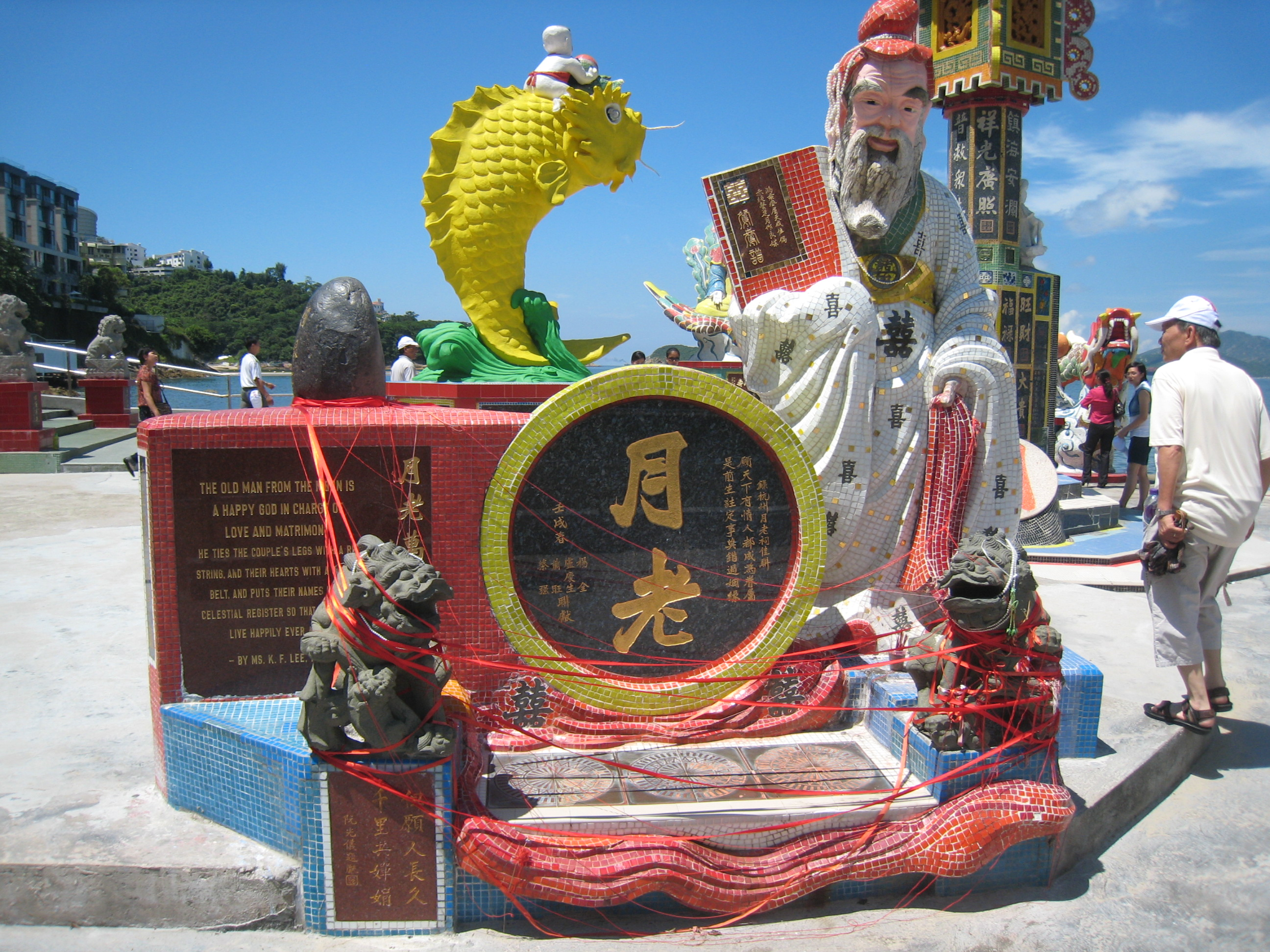 A statue of Yuexia Laoren in Repulse bay